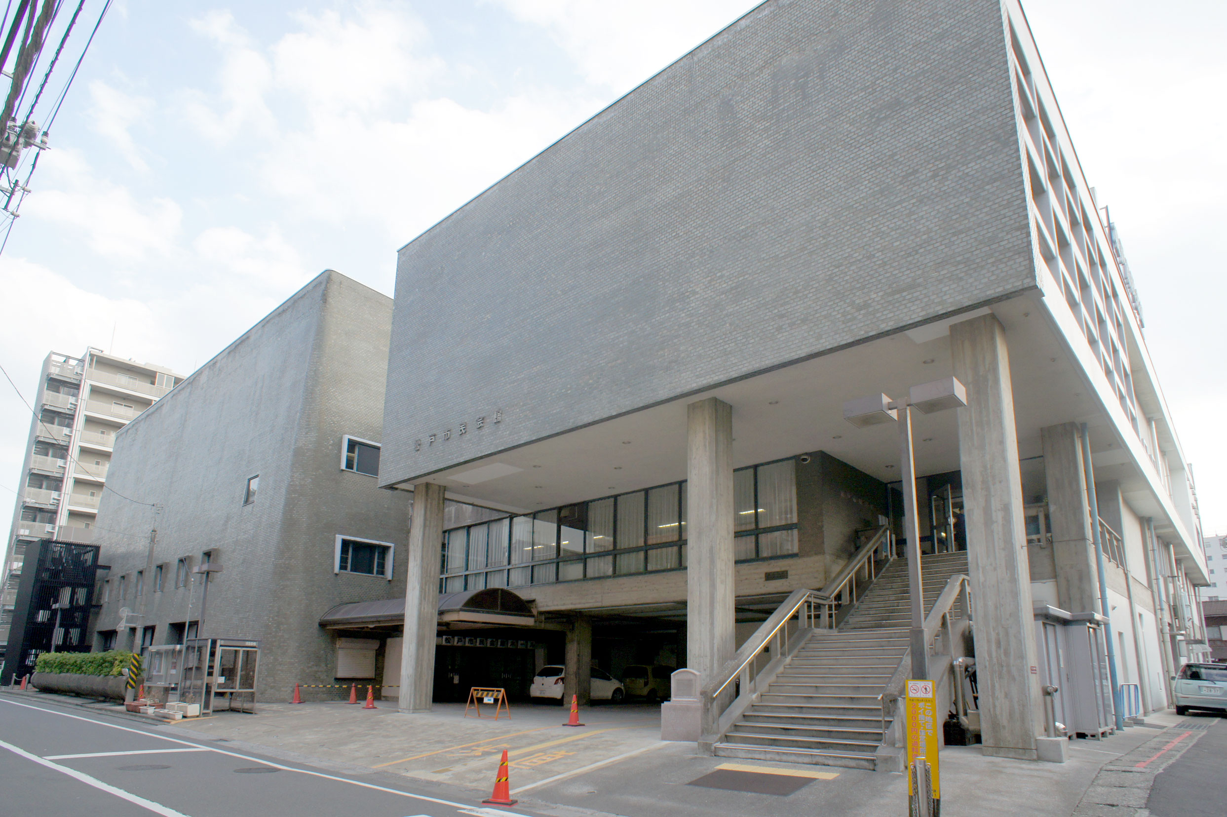 Matsudo Municipal Hall.